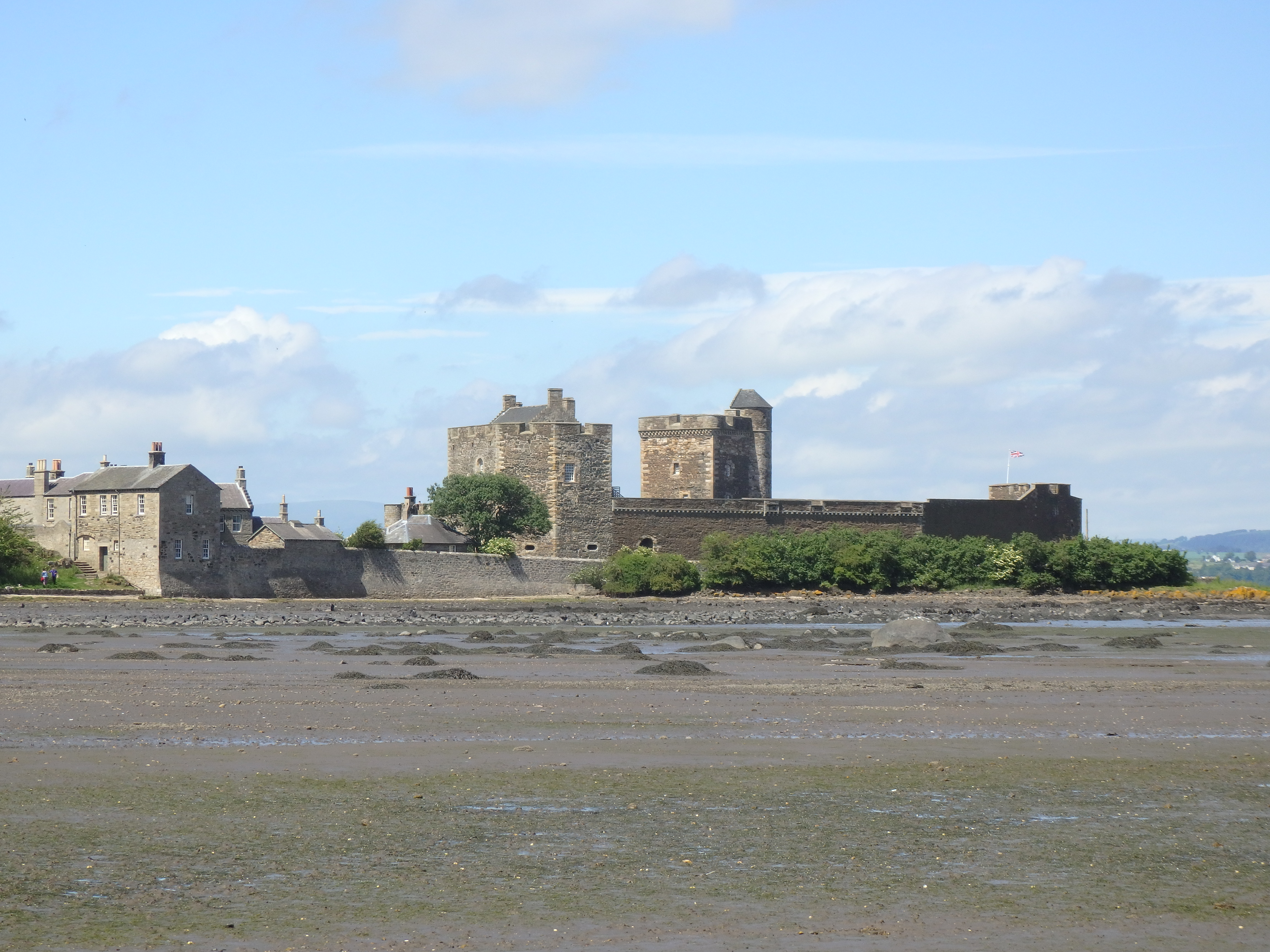 Blackness Castle, West Lothian, Scotland